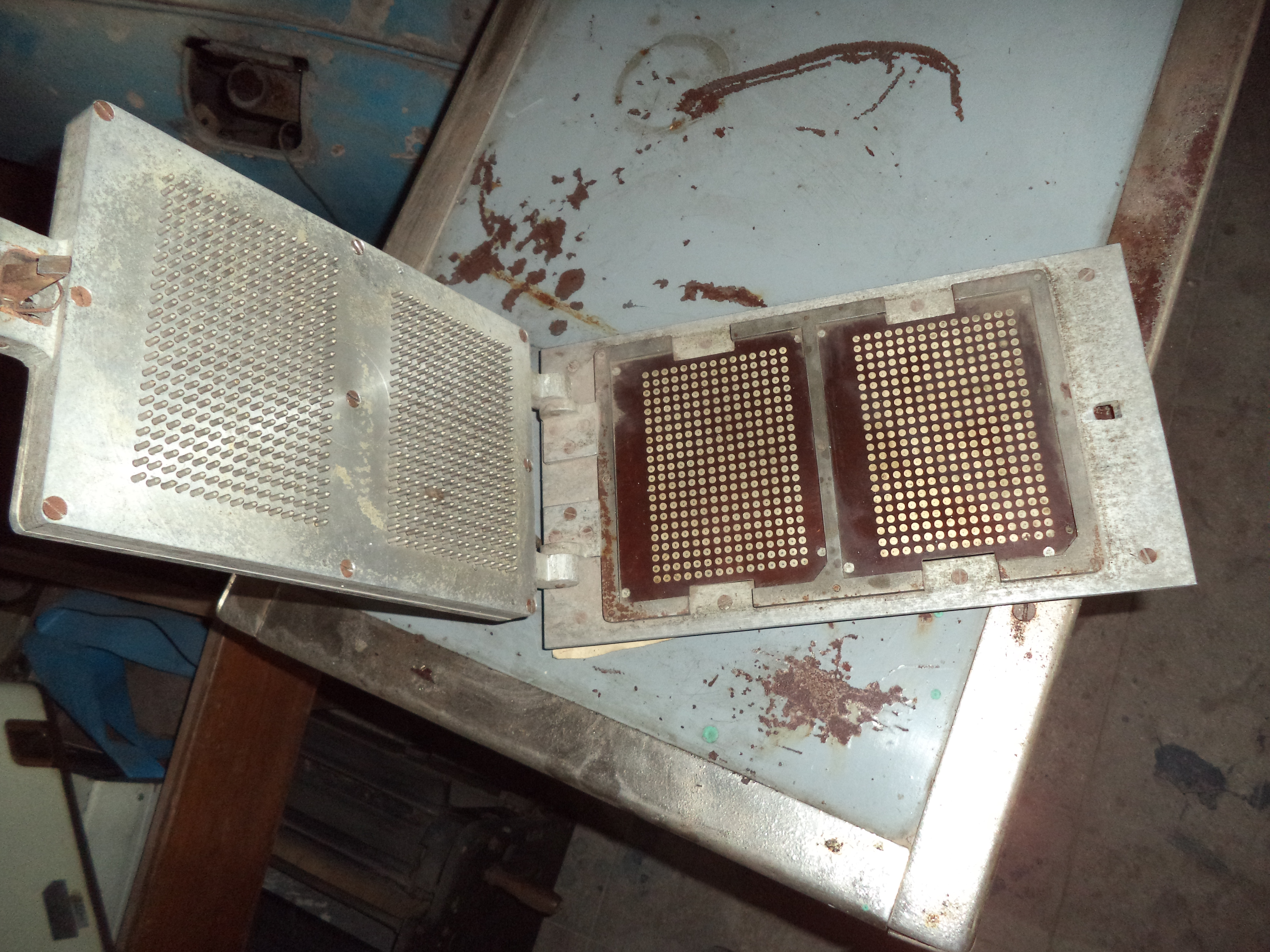 Dispozitiv Introducere Date pentru Calculatorul MARICA